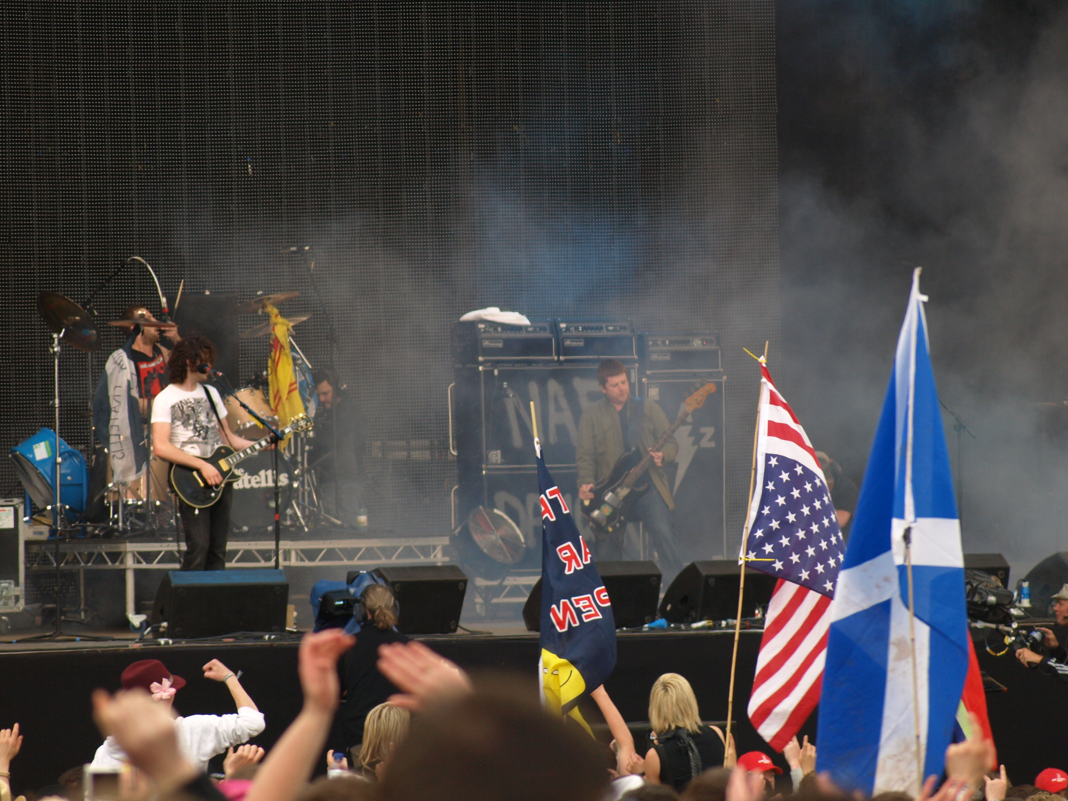 The Fratellis on stage